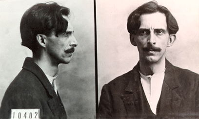 Prison's Photos of the notable brazilian anarchist Edgar Leuenroth in 1917.